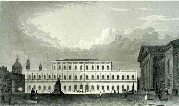 Max Joseph Square in Munich, Bavaria; forward King's Tract of Munich Residence, right hand side National Theatre. Etching, Middle of 19. Century.